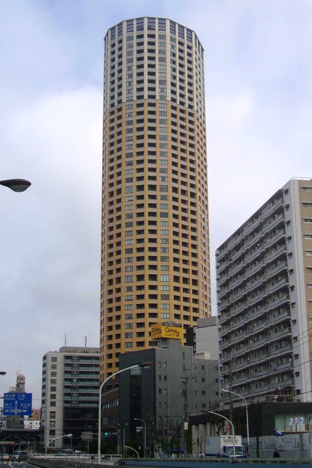 Nakameguro Atlas Tower apartment building, Meguro city, Tokyo